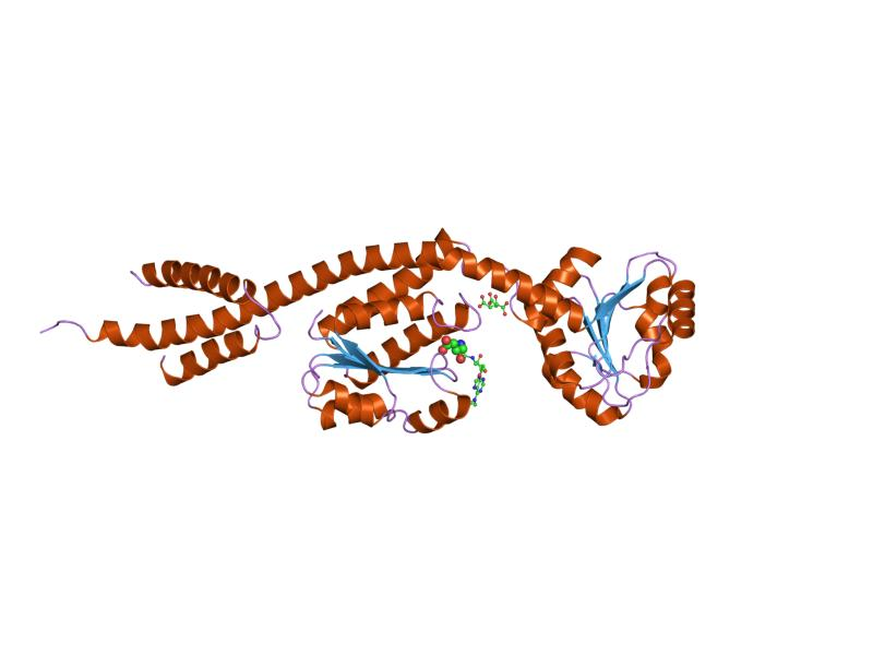 Cartoon representation of the molecular structure of protein registered with 1gpj code.